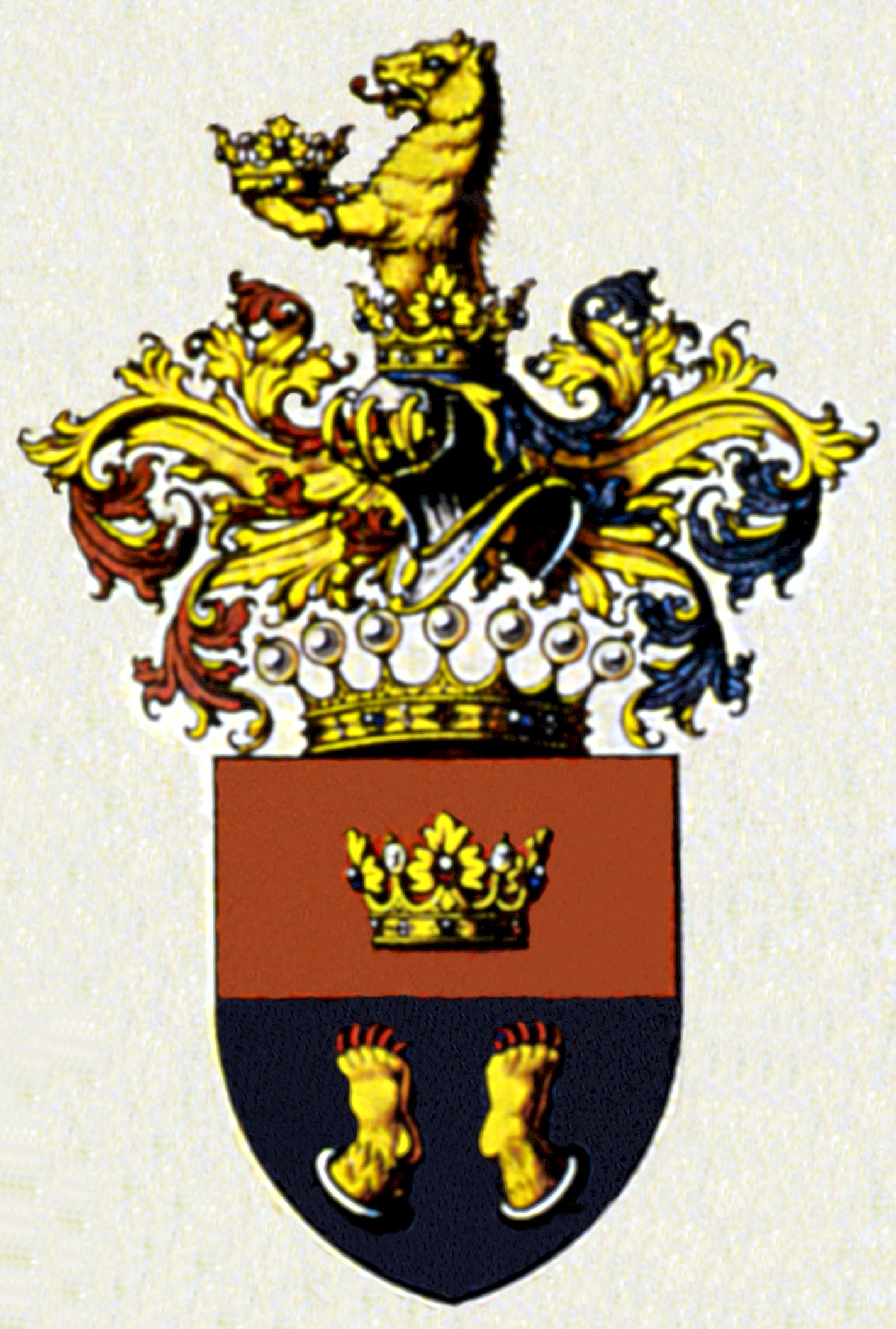 Coat of Arms of Barons of Flondor 1911/12